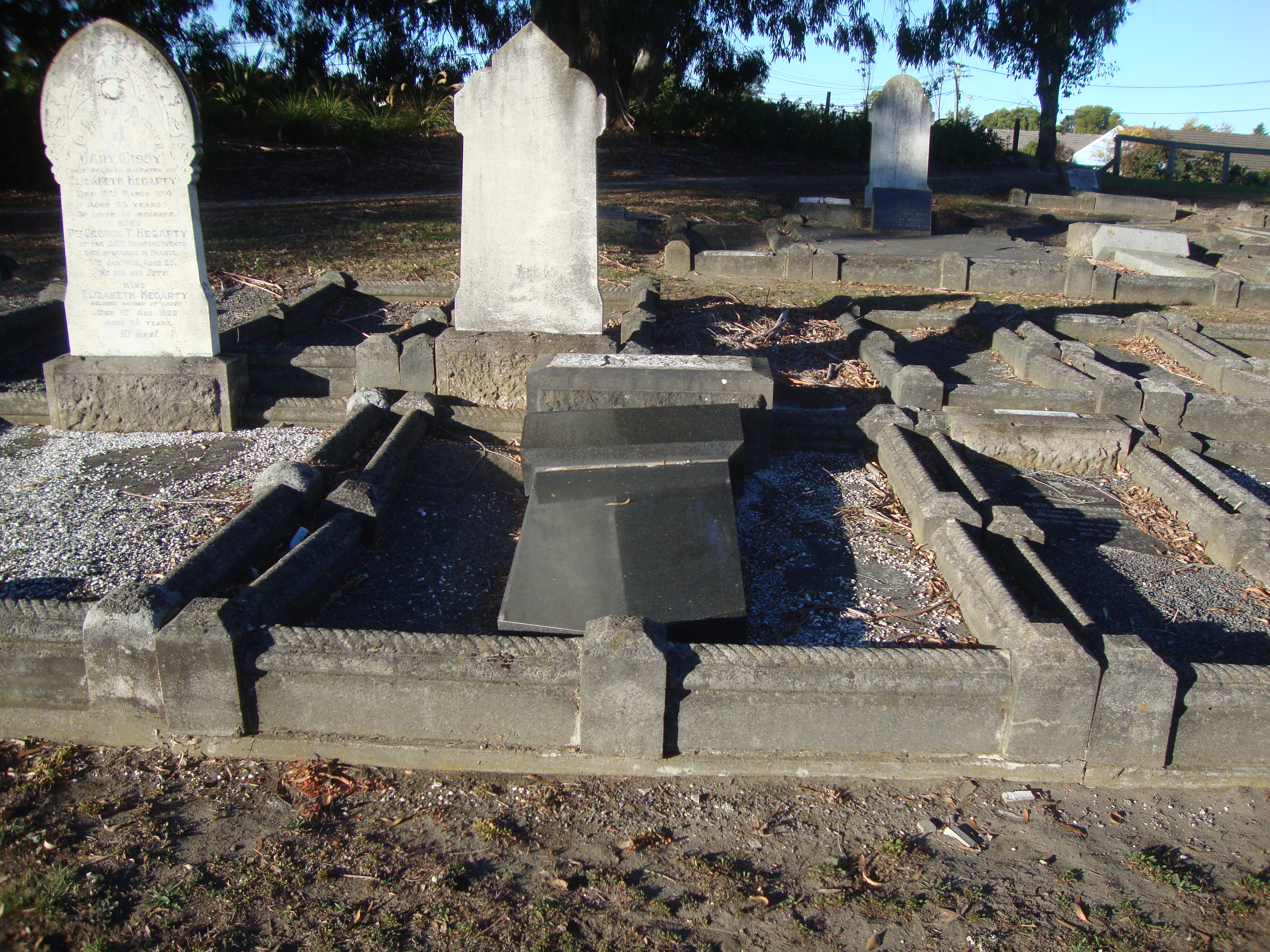 The headstone of Edwin Blake at Linwood Cemetery (block 24, plot 264). To the immediate right is the headstone of Ann Radcliffe (block 24, plot 263), further to the right again is the headstone of Charles Henry Edger Graham (block 24, plot 260), so this is definitely Blake's headstone. Many headstones fell over in the 22 February 2011 earthquake.